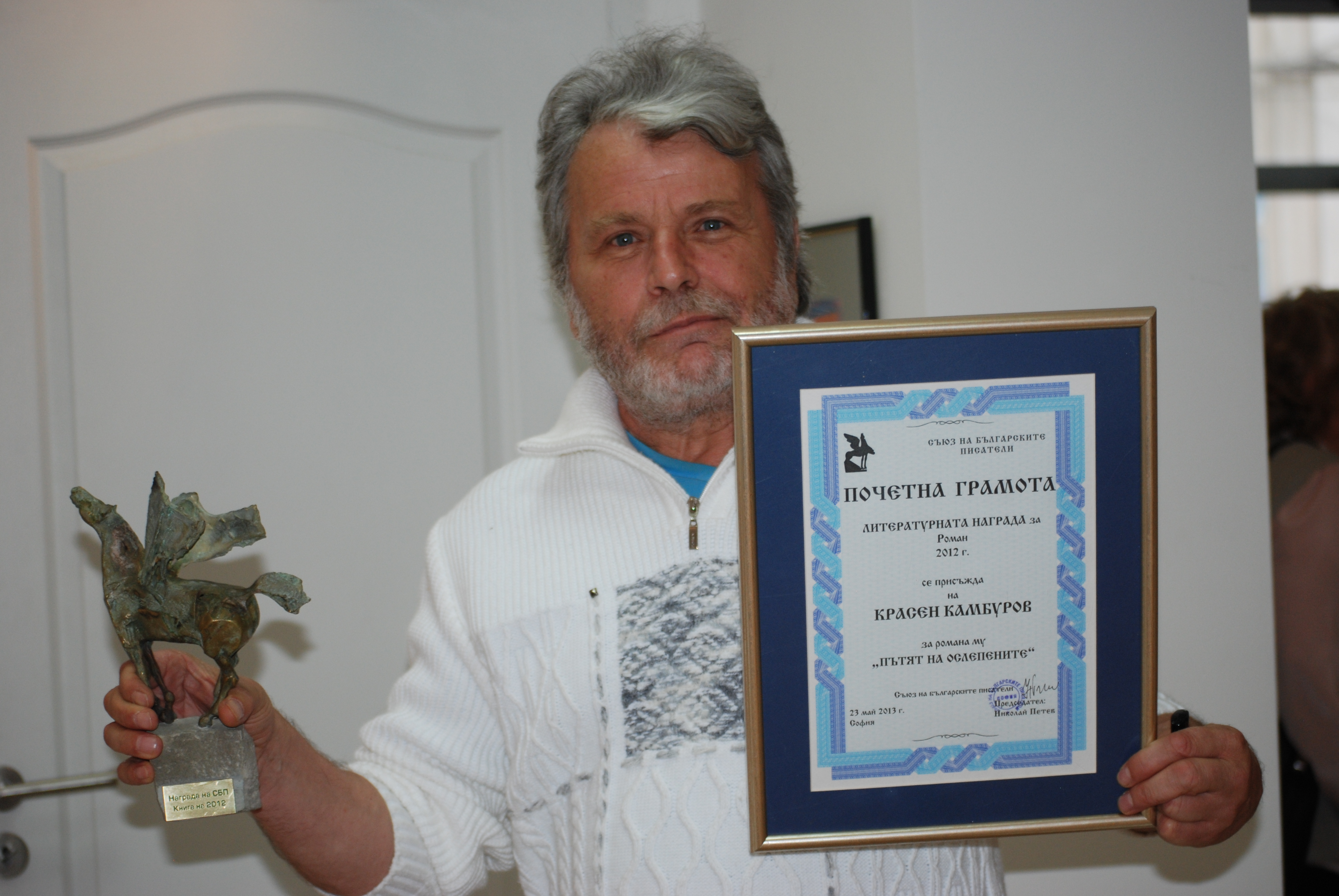 Красен Камбуров с наградата на Съюза на българските писатели за "Роман на годината", получена за "Пътят на ослепените. Покаяние за Беласица" на официална церемония в книжарница "Славянска беседа", 23 май 2017 г.